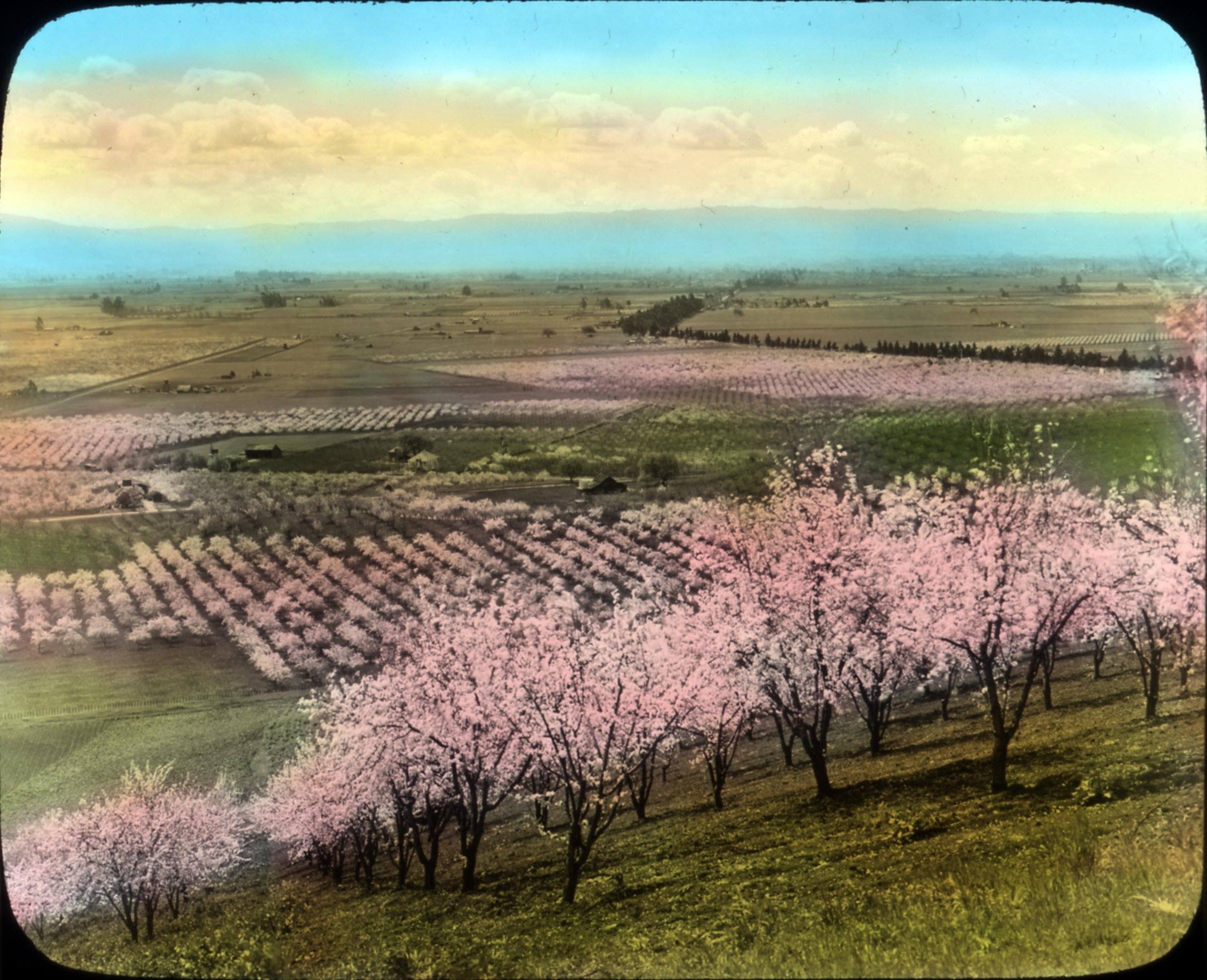 Original Collection: Visual Instruction Department Lantern Slides Item Number: P217:set 023 028 You can find this image by searching for the item number by clicking here. Want more? You can find more digital resources online. We're happy for you to share this digital image within the spirit of The Commons; however, certain restrictions on high quality reproductions of the original physical version may apply. To read more about what “no known restrictions” means, please visit the Special Collections & Archives website, or contact staff at the OSU Special Collections & Archives Research Center for details.